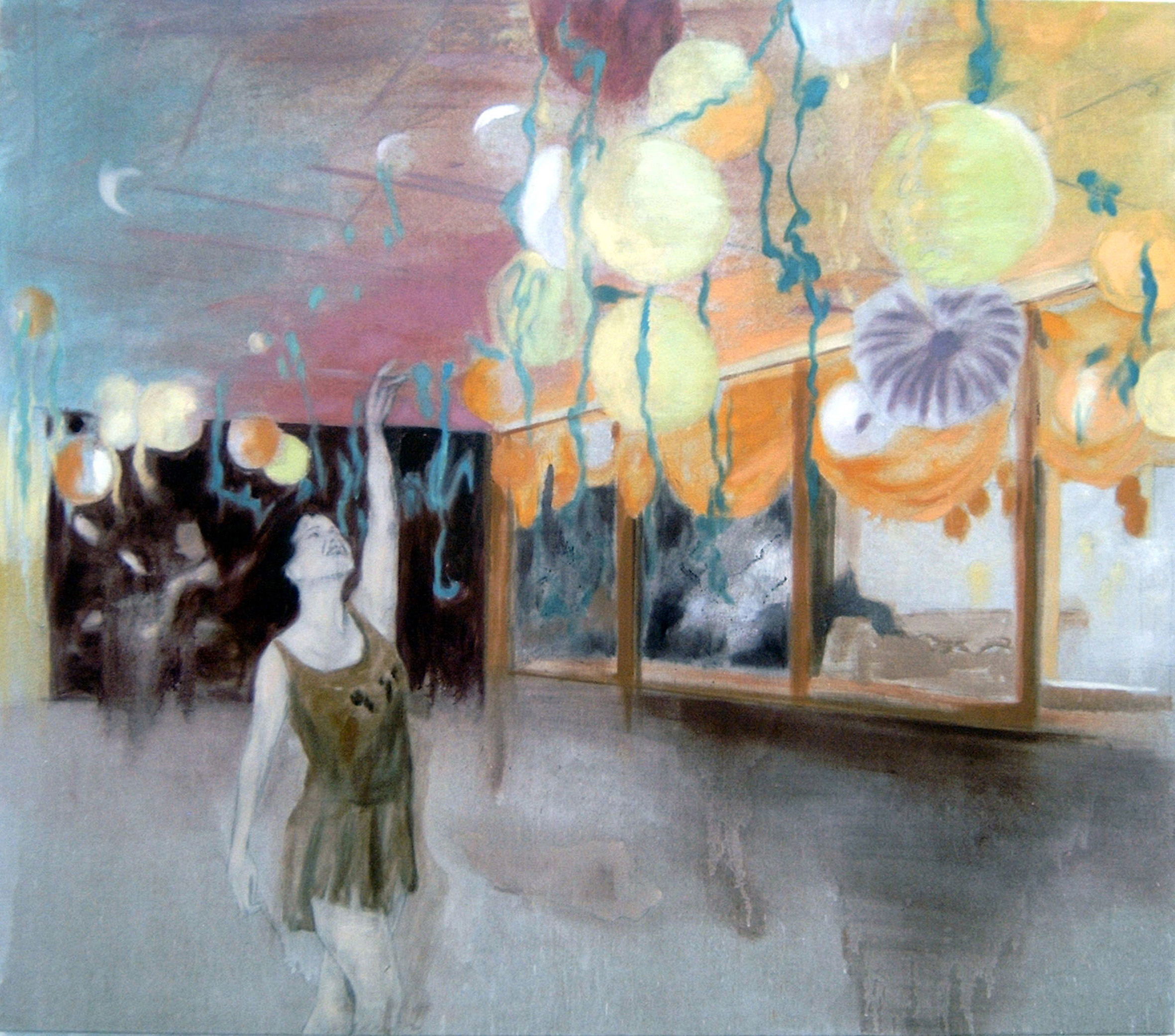 palast, oil on canvas, 140 x 160 cm, 2004